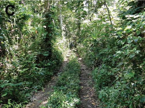 Road leading through a lowland tropical evergreen forest (Trainor et al. 2007) on the southeastern coast near Loré, Lautém District (altitude near sea level). This area also supports coastal dry forest, tidal forests including mangroves, and coastal grasslands. The distance of this area from major population centers and its relative inaccessibility may be the primary reasons for the presence of such a diverse set of intact habitats